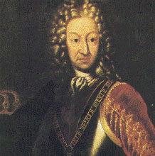 Portrait of Victor Amadeus II of Sardinia (1666-1732)